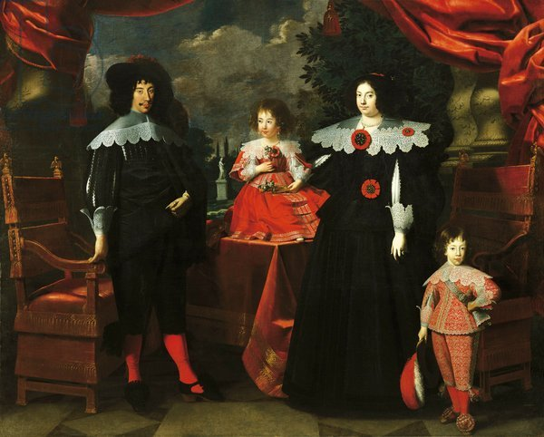 Francesco I d'Este, Duke of Modena, his wife Maria Farnese, and their children Isabella and Alfonso